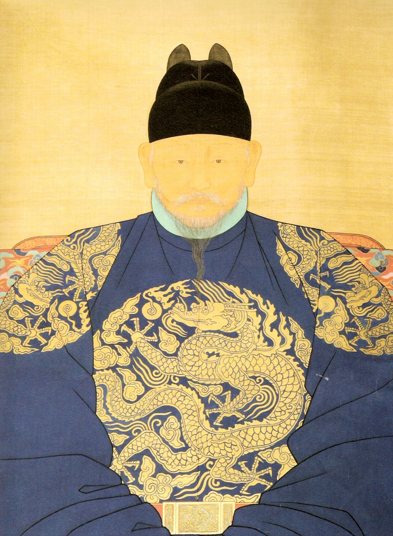 Taejo of Joseon